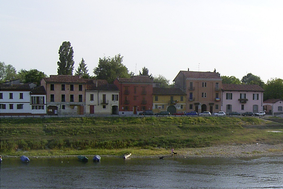 Borgo Basso, Pavia, Italy Author: Giorgio Gonnella User:Ggonnell Date: August, 26th, 2003